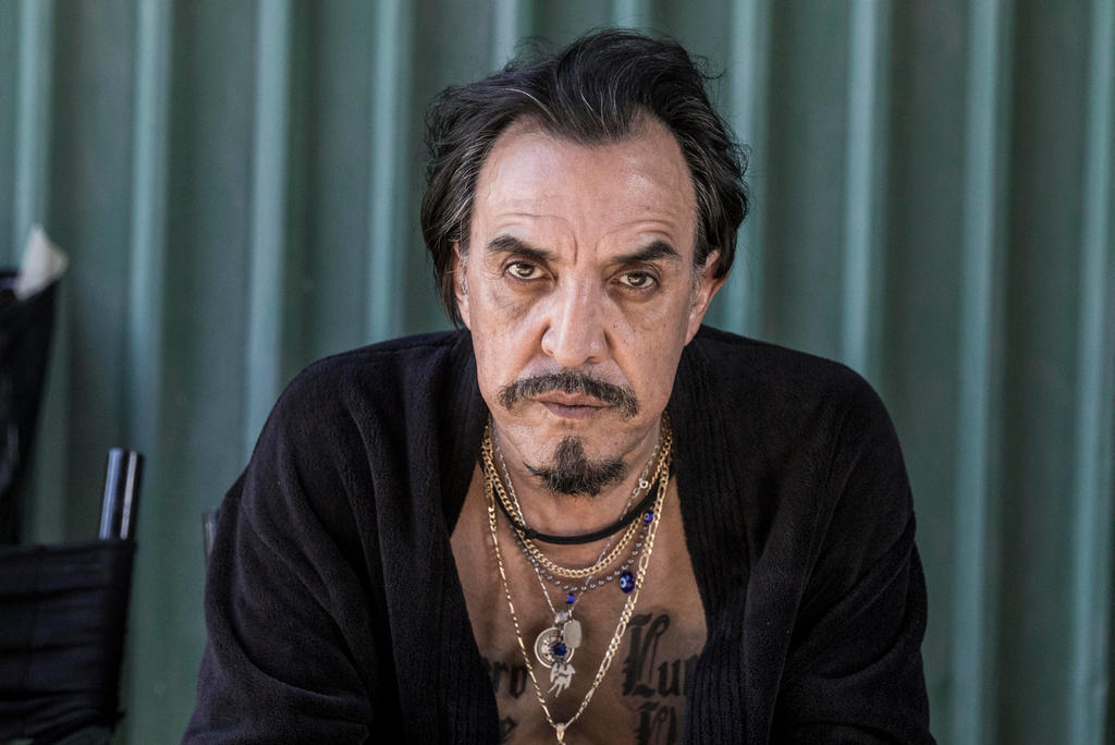 Luis Felipe Tovar interpretando a "Tavares" en la serie de Telemundo "El Recluso".